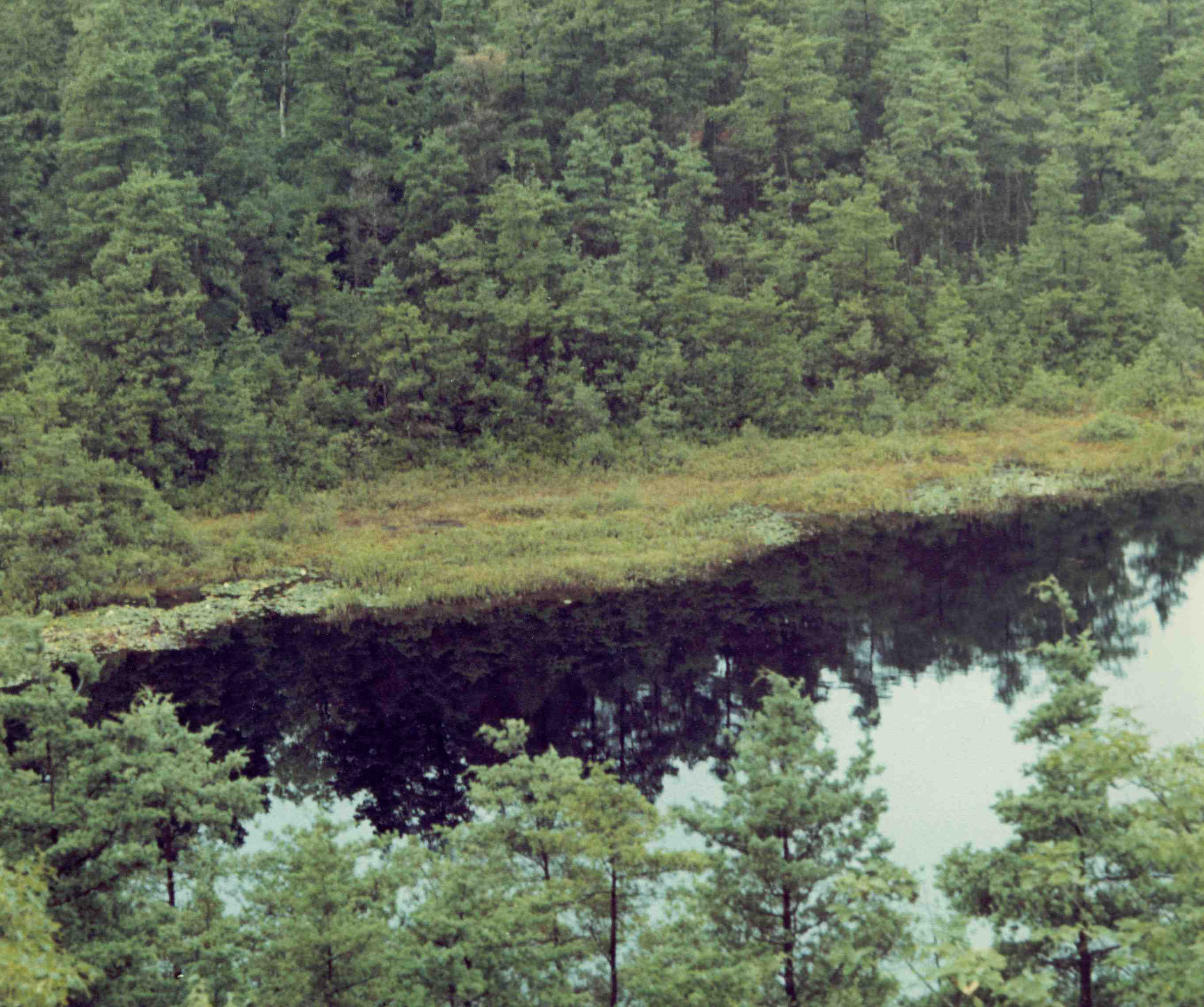 Ell Pond, a kettle hole in Rhode Island. Obtained from